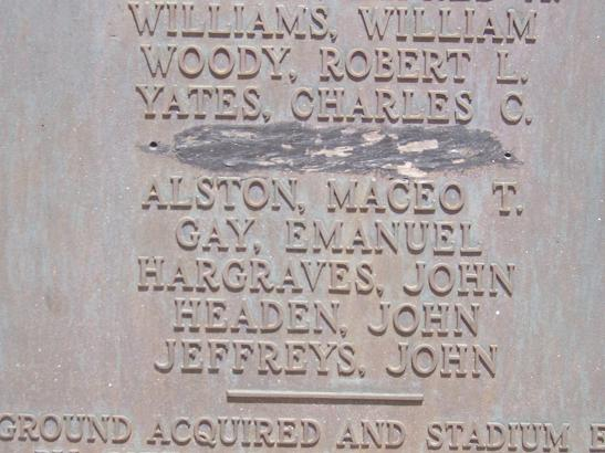 I took this picture at World War Memorial Stadium in Greensboro, North Carolina, on April 21, 2005.